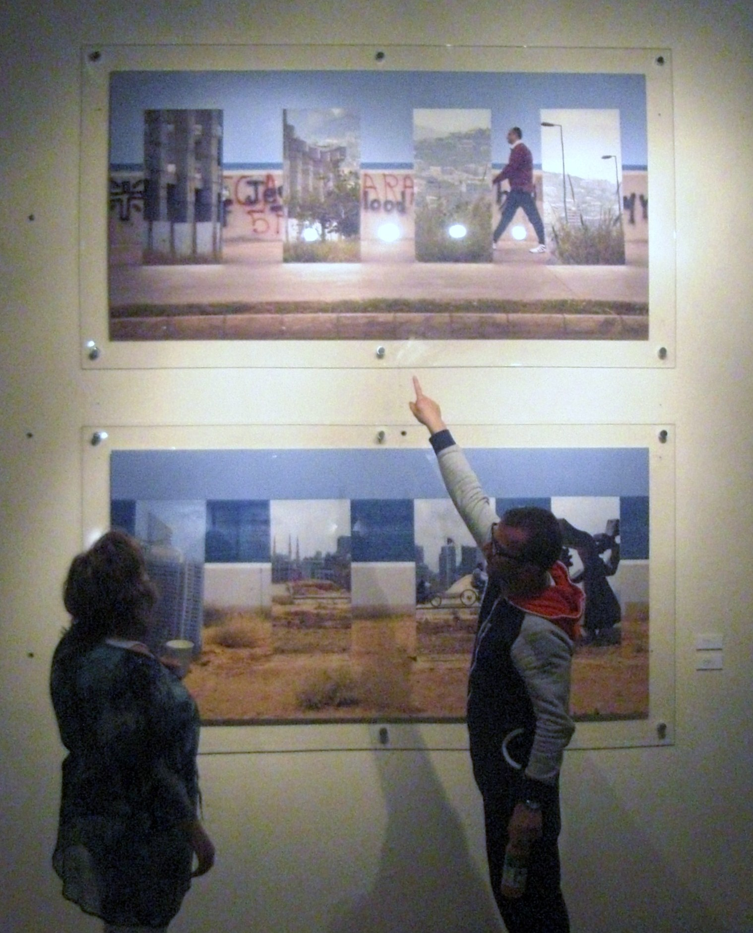 visitors discussing two photos (from the series 'Behind the Sea') of Ad Achkar displayed at SNAP! Orlando in May 2012